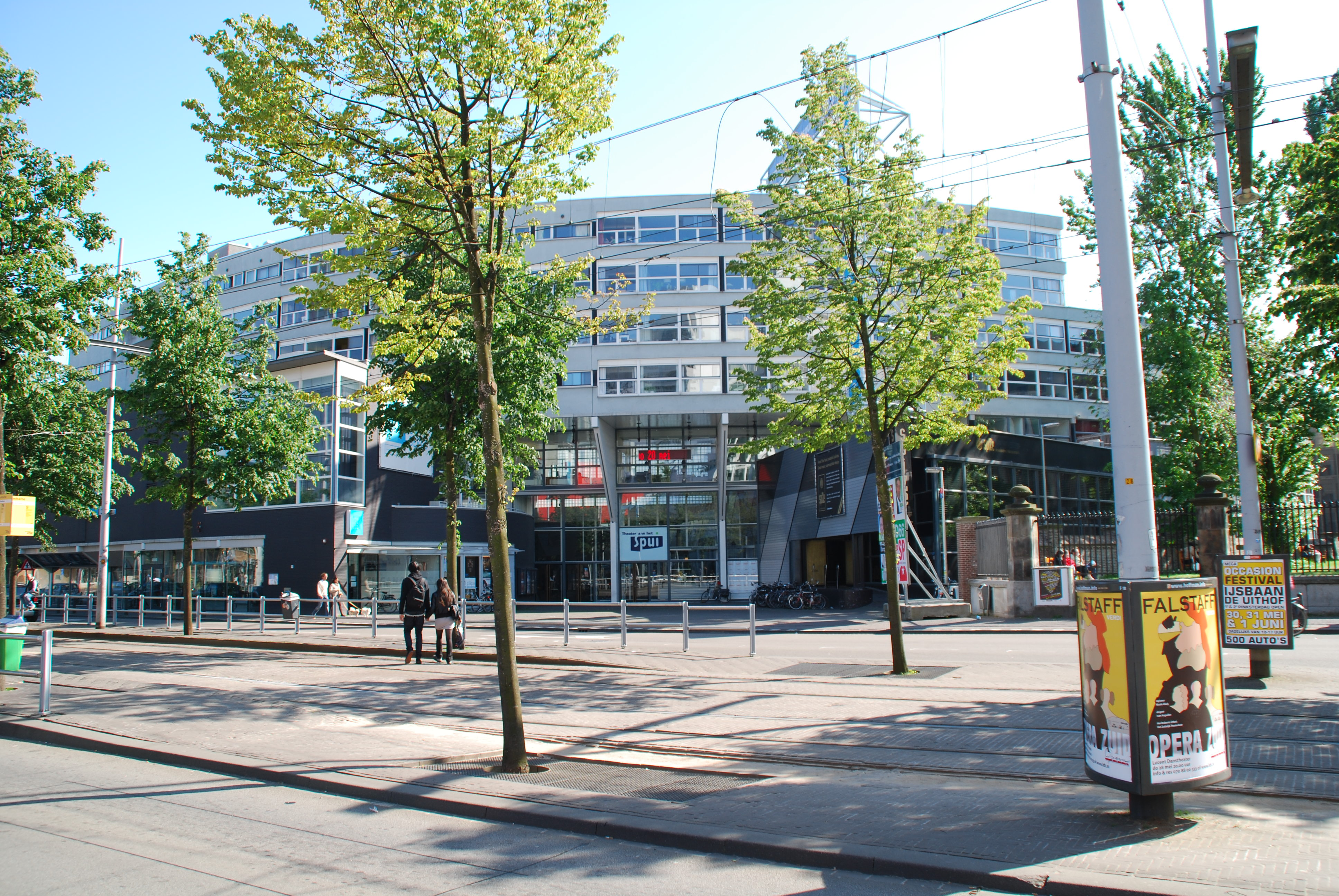 Theater aan het Spui, the Hague - the Netherlands